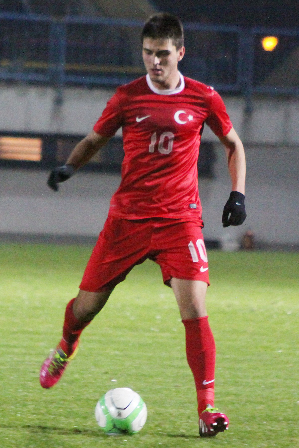 Friendly-match Austria U-21 vs. Turkey U-21 (2:0) on 2013-11-14 in Wiener Neudorf. – The photo shows Okay Yokuşlu (Kayserispor, Turkey).